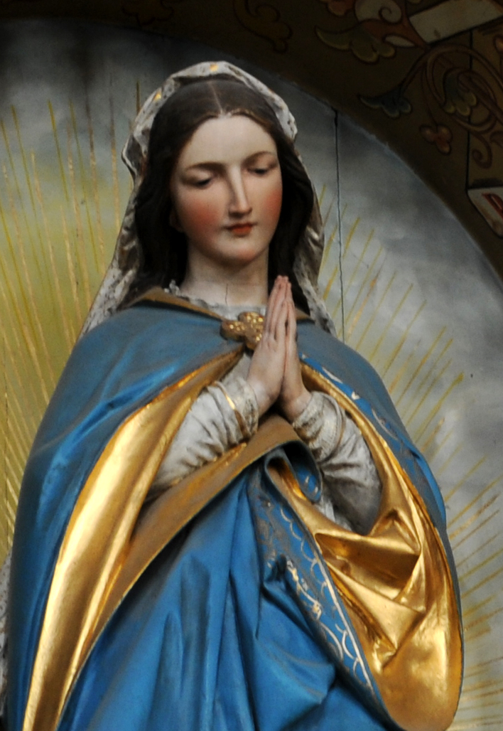 Virgin in the parish church of St. Ulrich in Gröden - Ortisei Val Gardena Italy. painter Josef Moroder-Lusenberg.